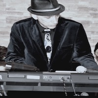 Ron Rogers, songwriter performing City Island, New York.